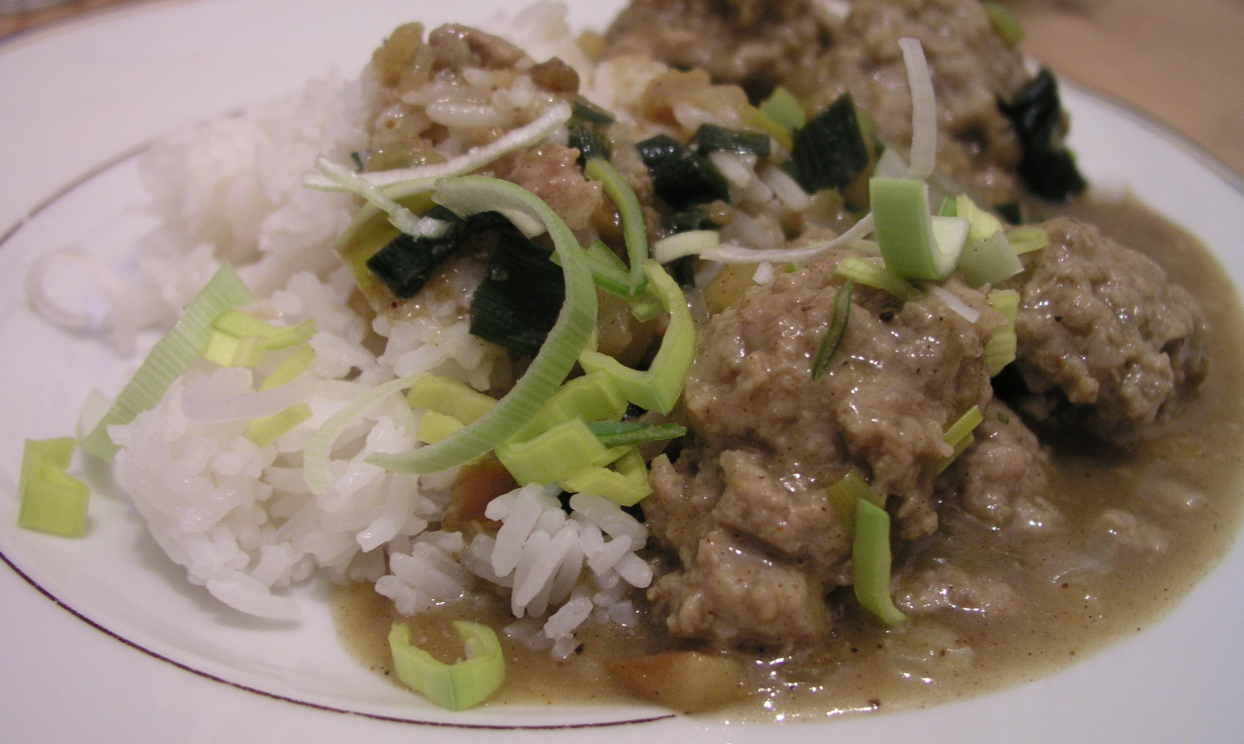 Boller i karry (a traditional danish meal - meatsballs in currysauce with rice)